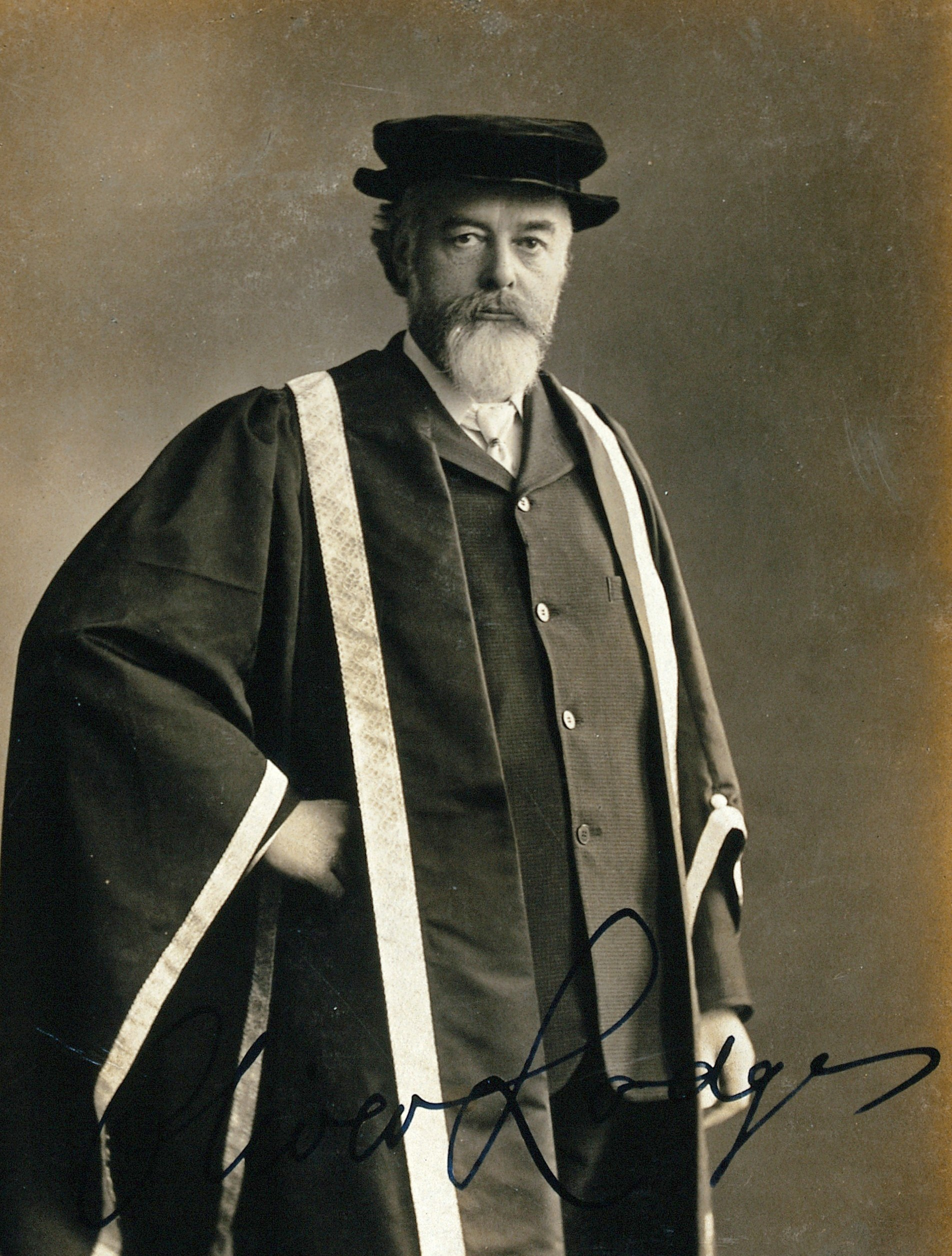 Bain News Service,, publisher. Sir Oliver Lodge [between ca. 1910 and ca. 1915] 1 negative : glass ; 5 x 7 in. or smaller. Notes: Title from unverified data provided by the Bain News Service on the negatives or caption cards. Forms part of: George Grantham Bain Collection (Library of Congress). Format: Glass negatives. Repository: Library of Congress, Prints and Photographs Division, Washington, D.C. 20540 USA, General information about the Bain Collection is available at Higher resolution image is available (Persistent URL): Call Number: LC-B2- 3002-16